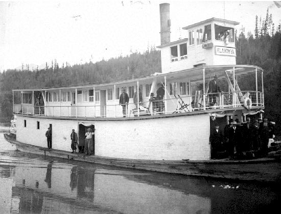 Klahowya sternwheel steamer on Columbia River, in British Columbia, ca 1911.